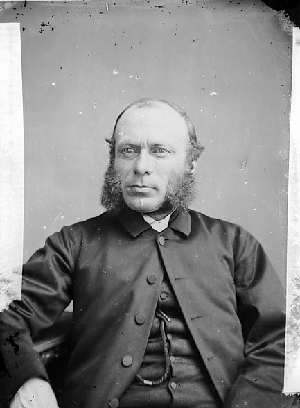 1 negative : glass, wet collodion, b&w ; 11 x 8.5 cm.